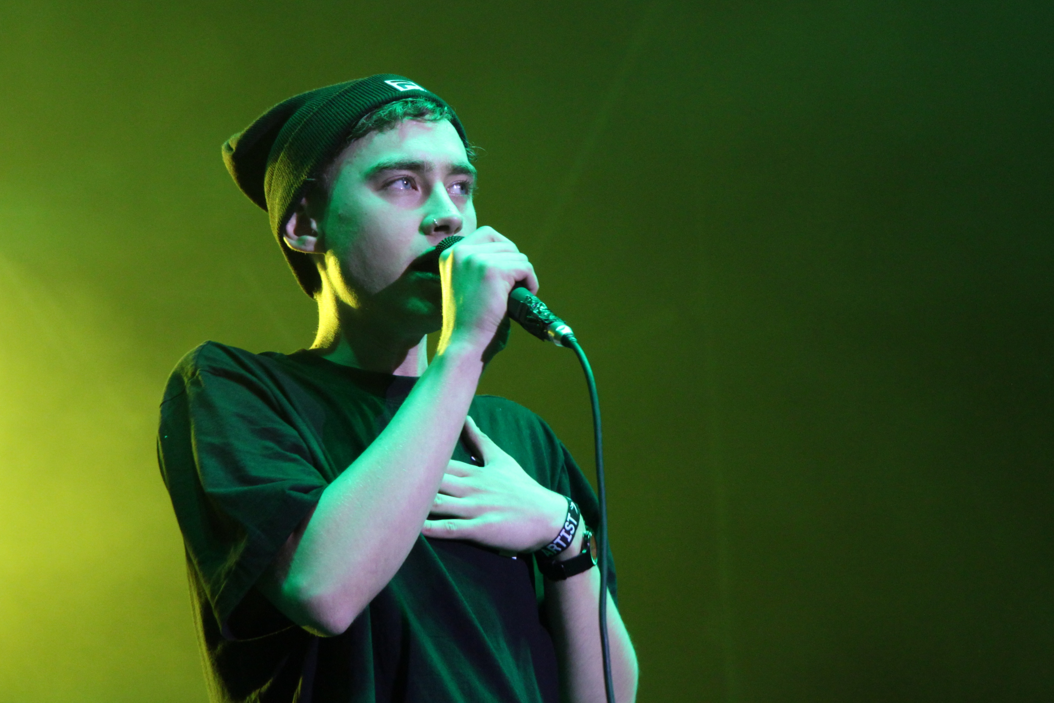 Years & Years during Tauron Nowa Muzyka 2014 festival.